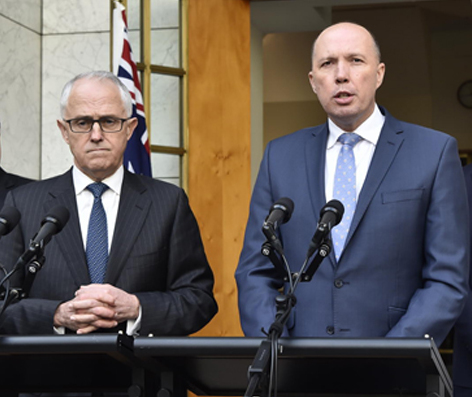 George Brandis (Attorney-General for Australia), Malcolm Turnbull (Prime Minister of Australia) and Peter Dutton (Minister for Immigration and Border Protection) at the announcement of a new home affairs portfolio.